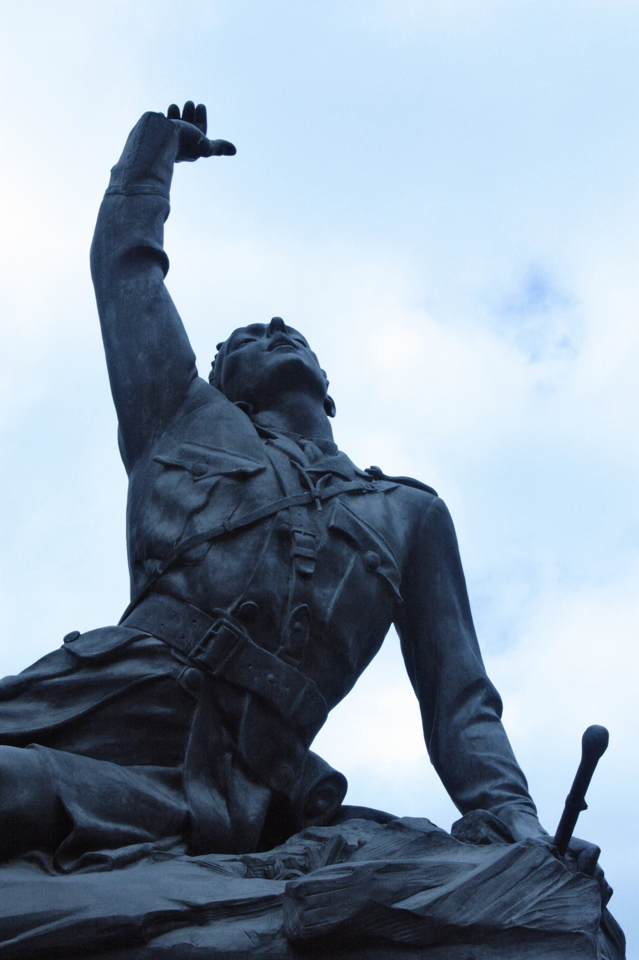 Fallen officer holding a swagger stick: Fettes College War Memorial